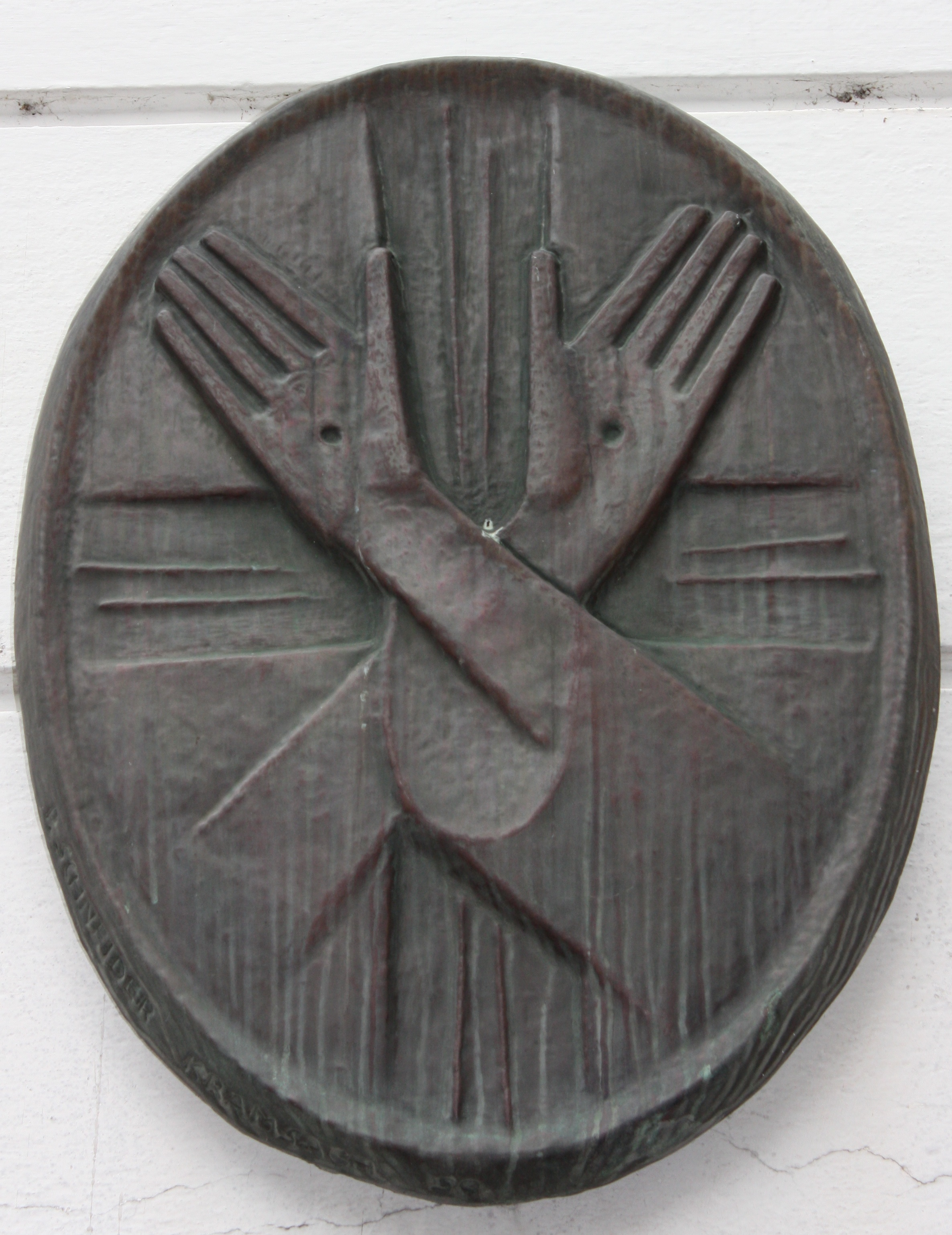 Franciscan-church - outside - hands with stigmata Locality:Muchargasse Community:Lienz